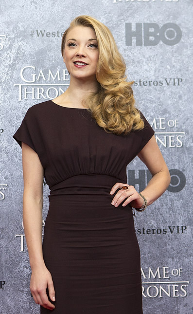 Natalie Dormer at HBO's "Game Of Thrones" Season 3 Seattle Premiere at Cinerama.